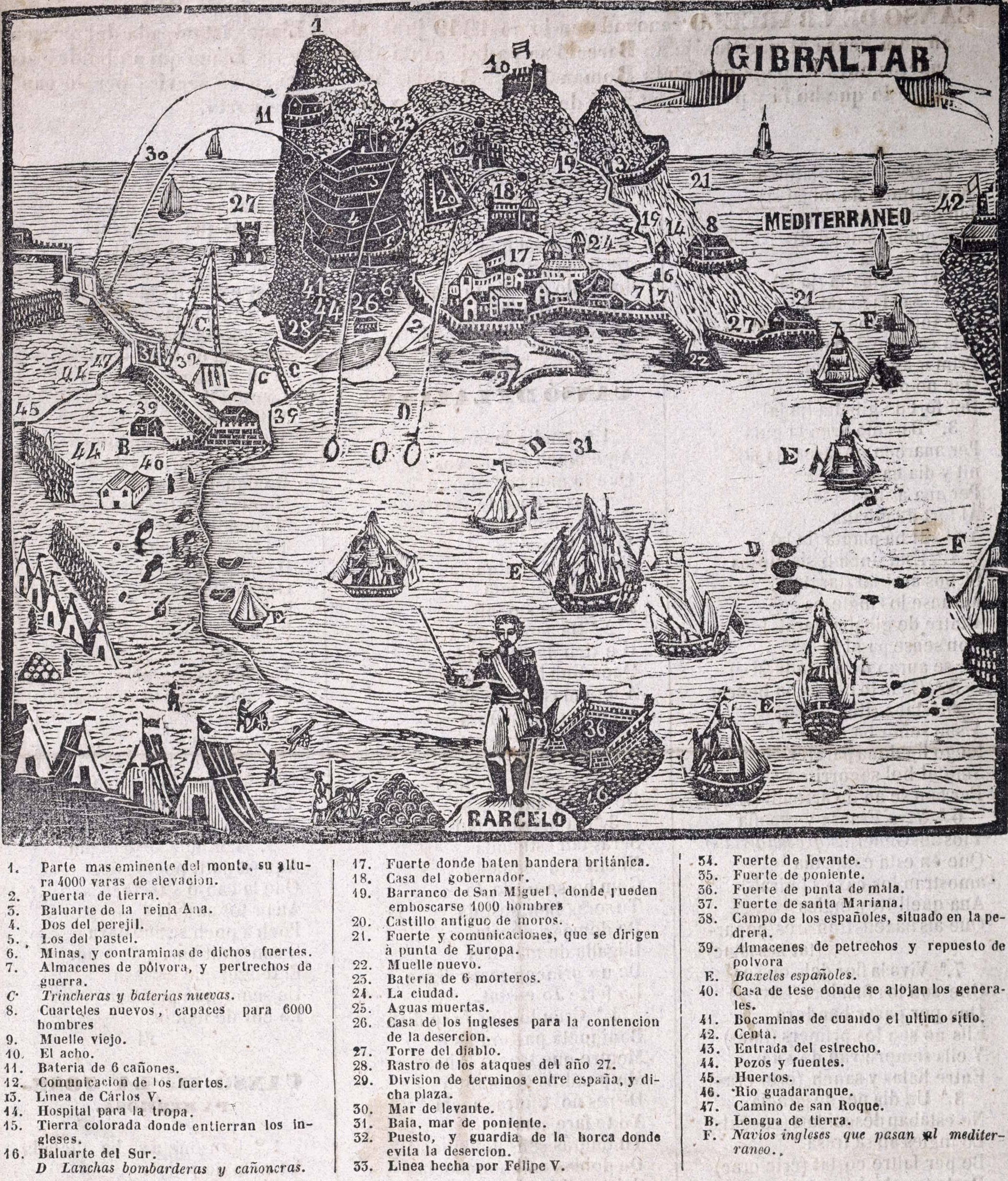 Map of the Siege of Gibraltar in 1779. Spanish admiral Antonio Barceló, commander of the operations, is illustrated at the bottom of the map.